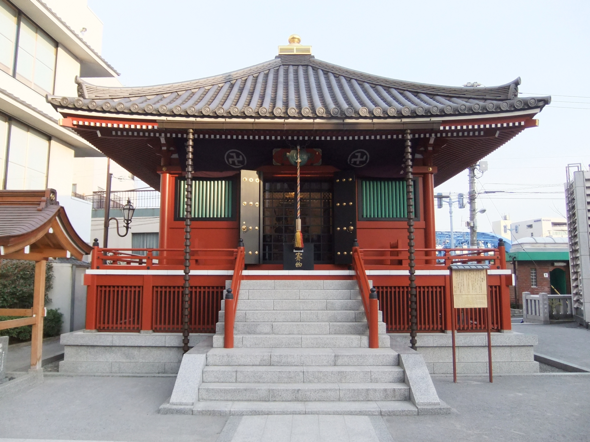 Komagata-dō Hall of Sensō-ji Temple